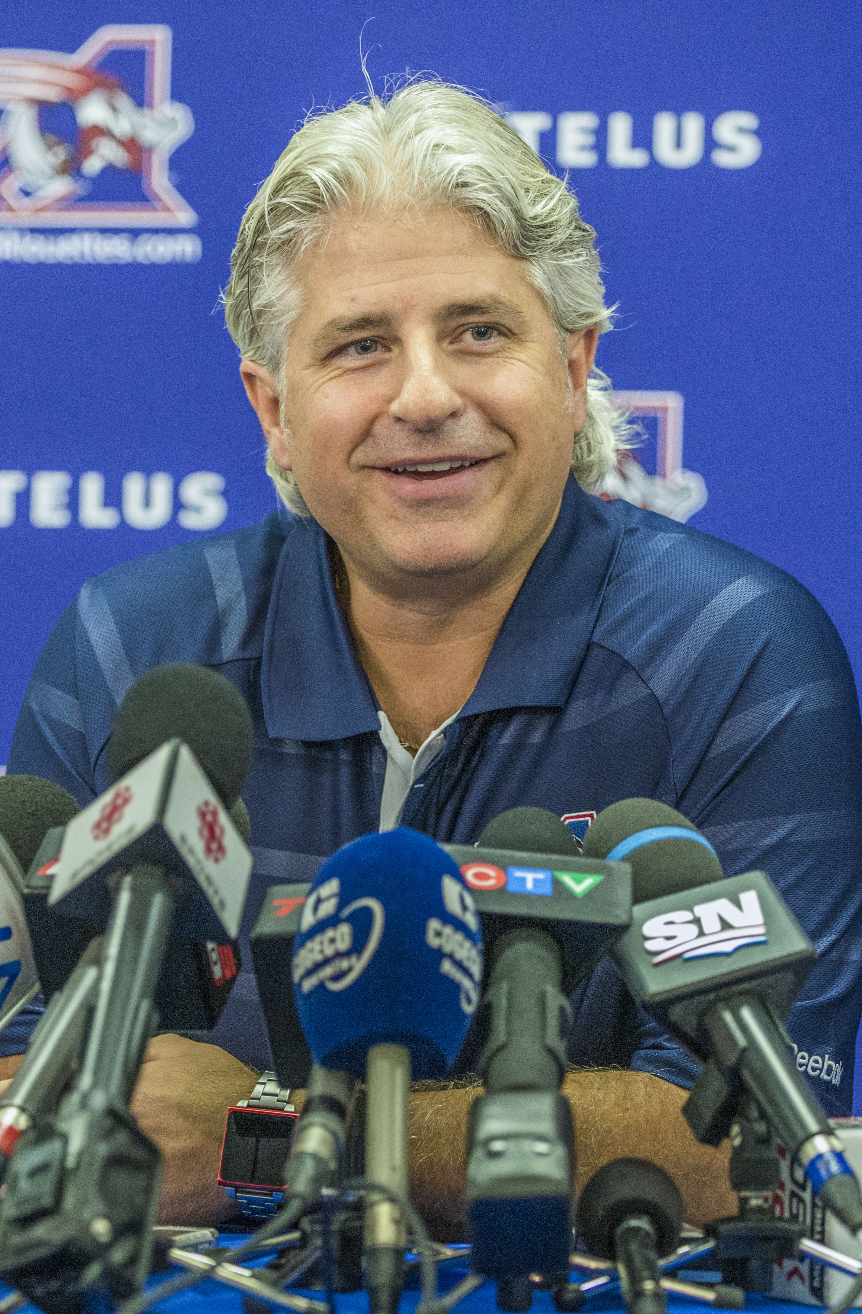 Jim Popp